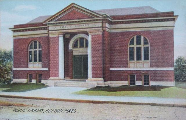 The Hudson Public Library, Hudson, Massachusetts. Built with a donation from Andrew Carnegie, the library opened on November 16, 1905. A second floor was added in 1929.